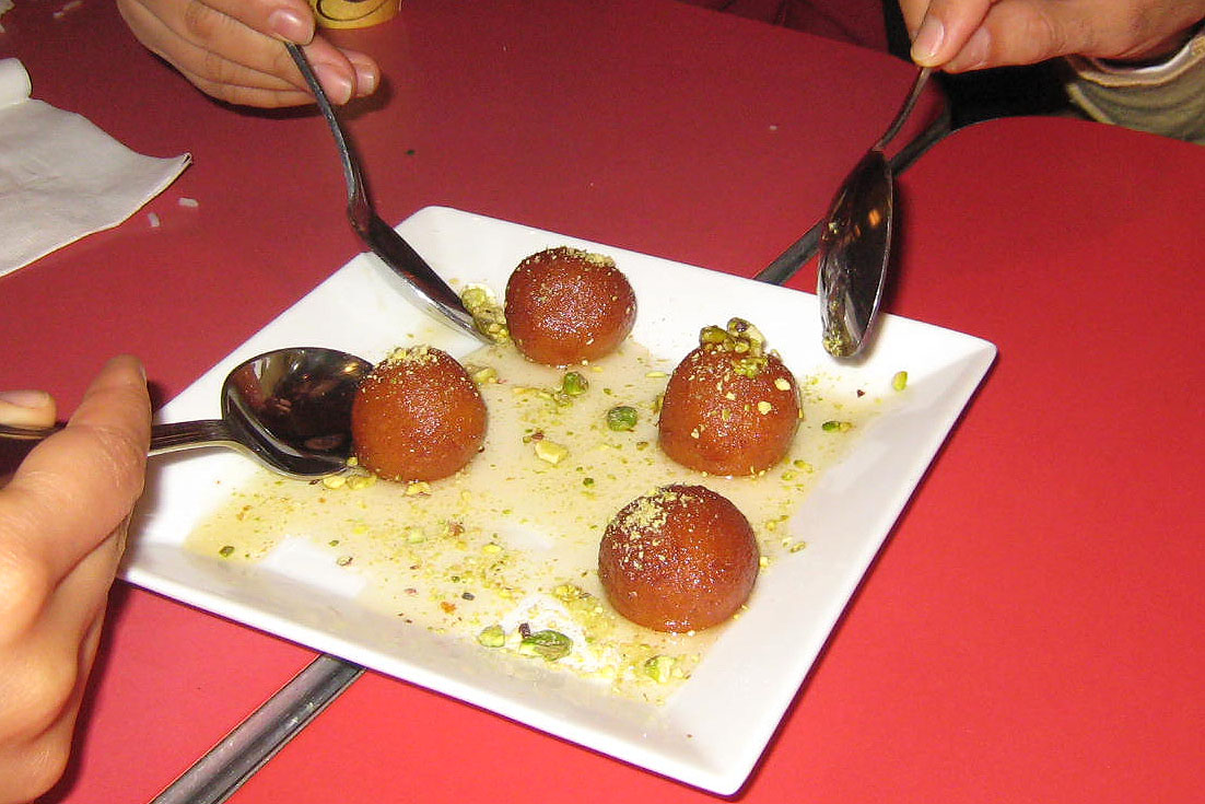 Gulab Jamun